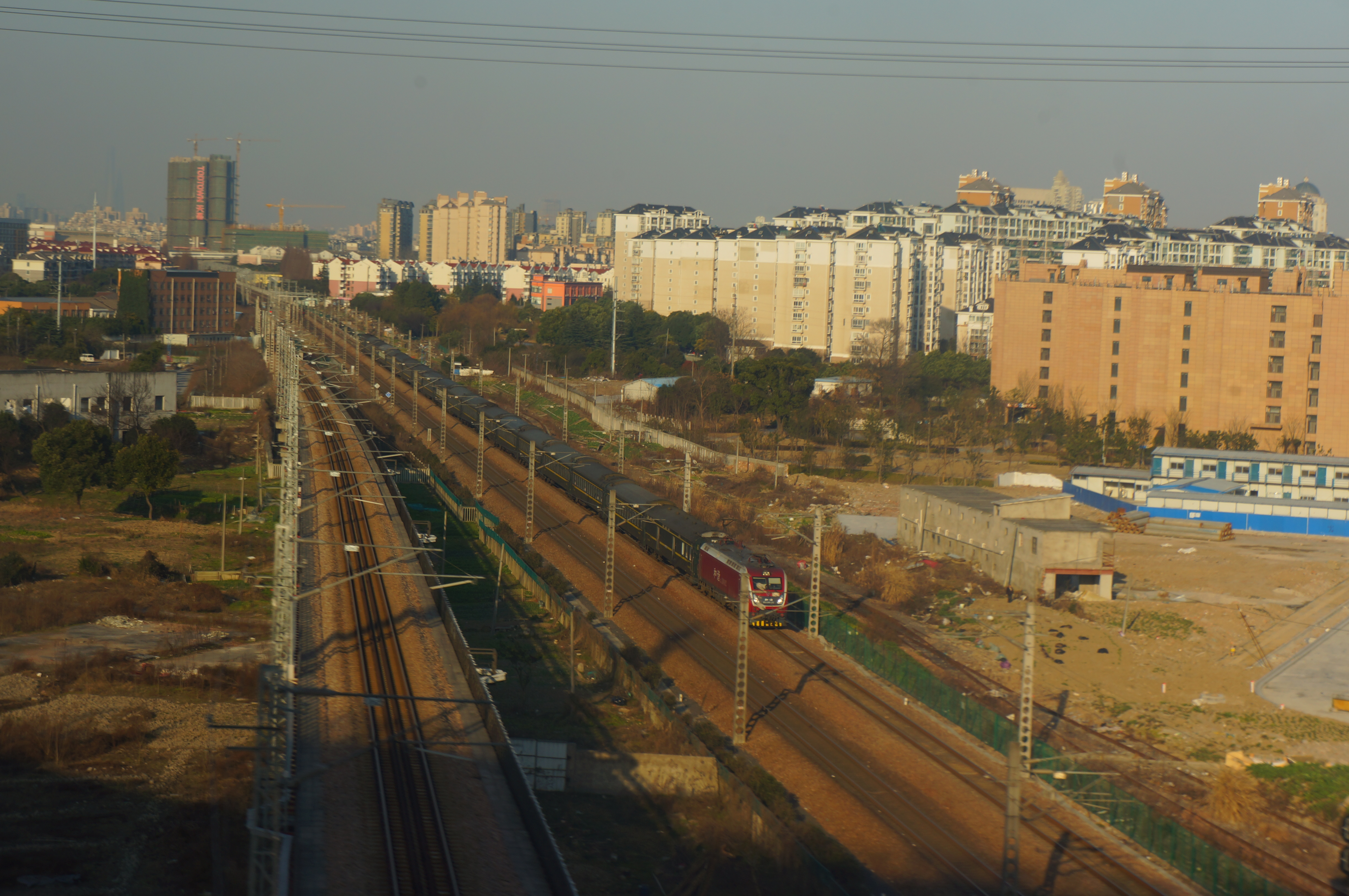 201702 T81 approaches to Chunshen Station. Finally T81 is HXDised after Chunyun began. Taken on G7365